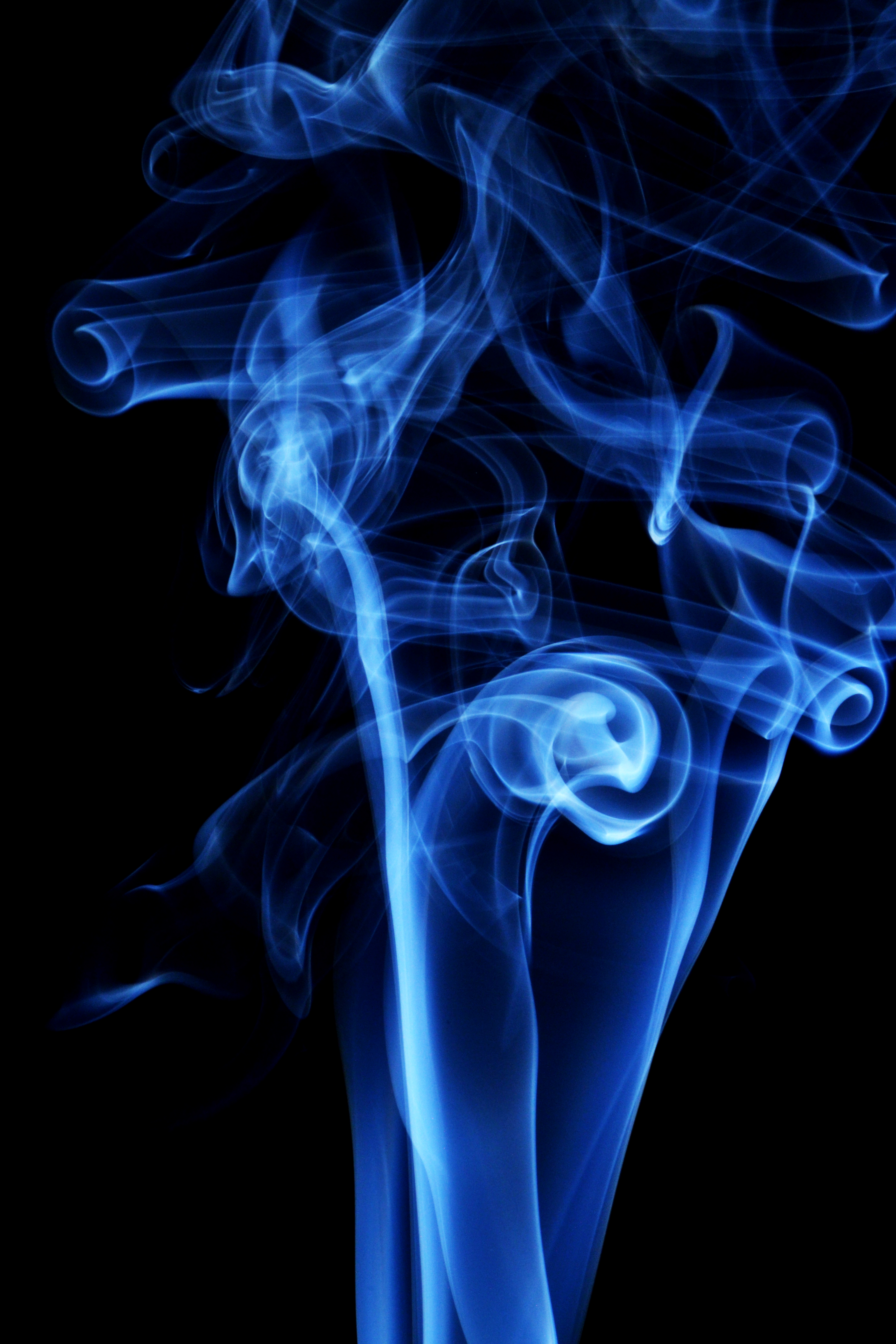 עשן קטורת